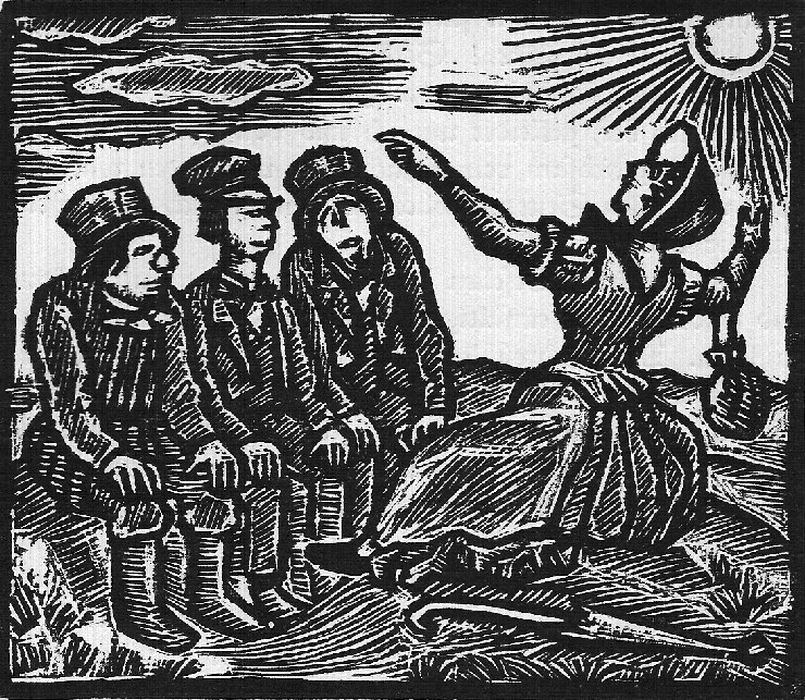 Miss Bünzlin lecturing the combmakers